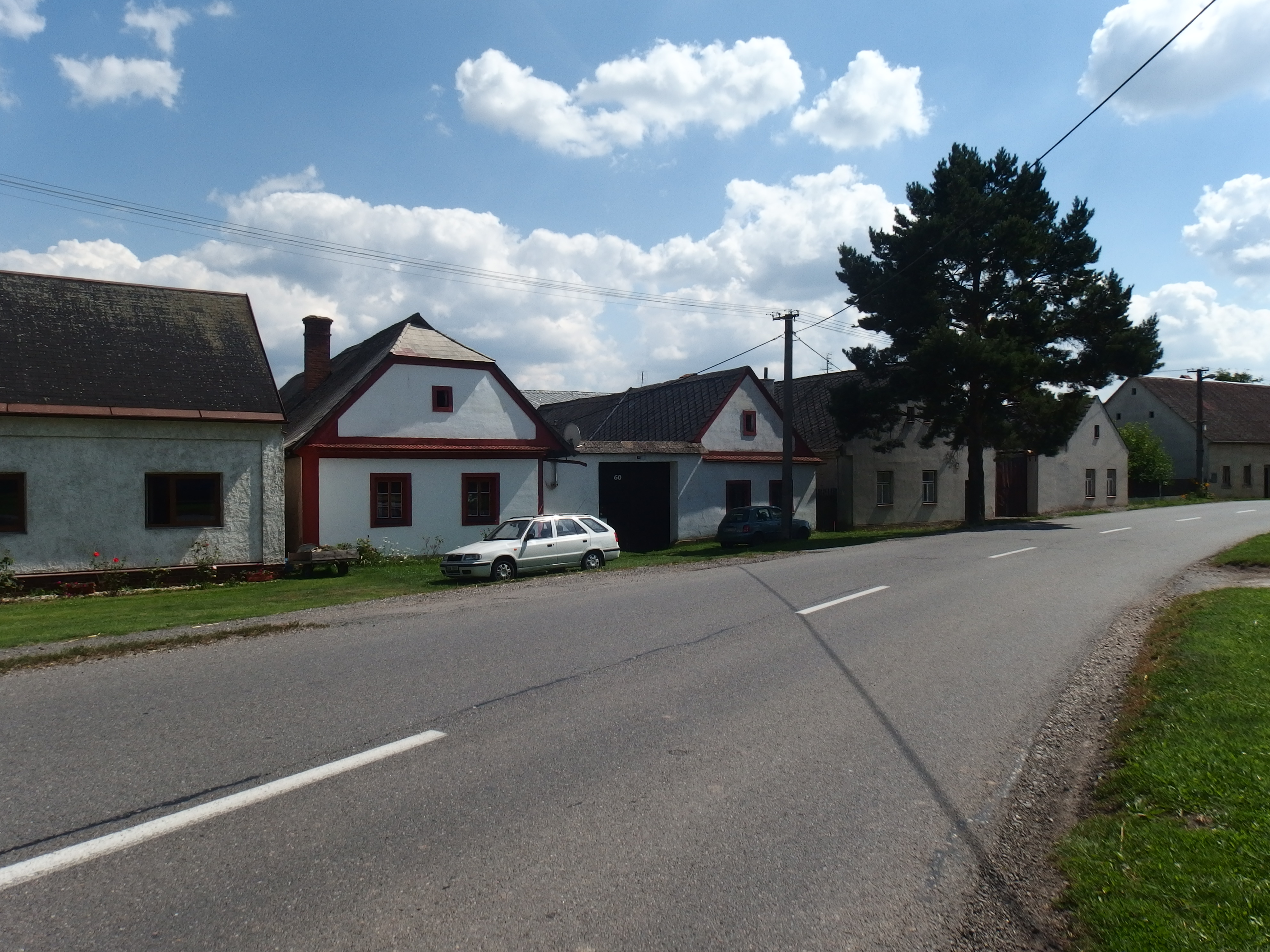 Městečko Trnávka, Svitavy District, Czech Republic, part Lázy.